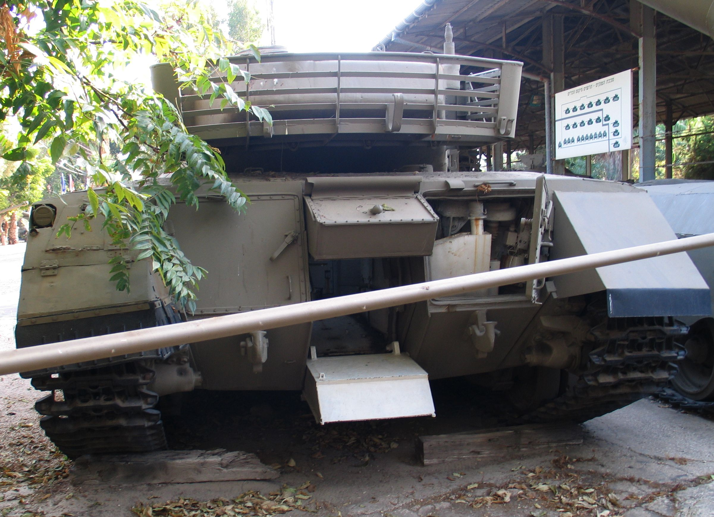 Description: Merkava I main battle tank in Batey ha-Osef museum, Tel Aviv, Israel. 2005. Source: Photo by me, User:Bukvoed.